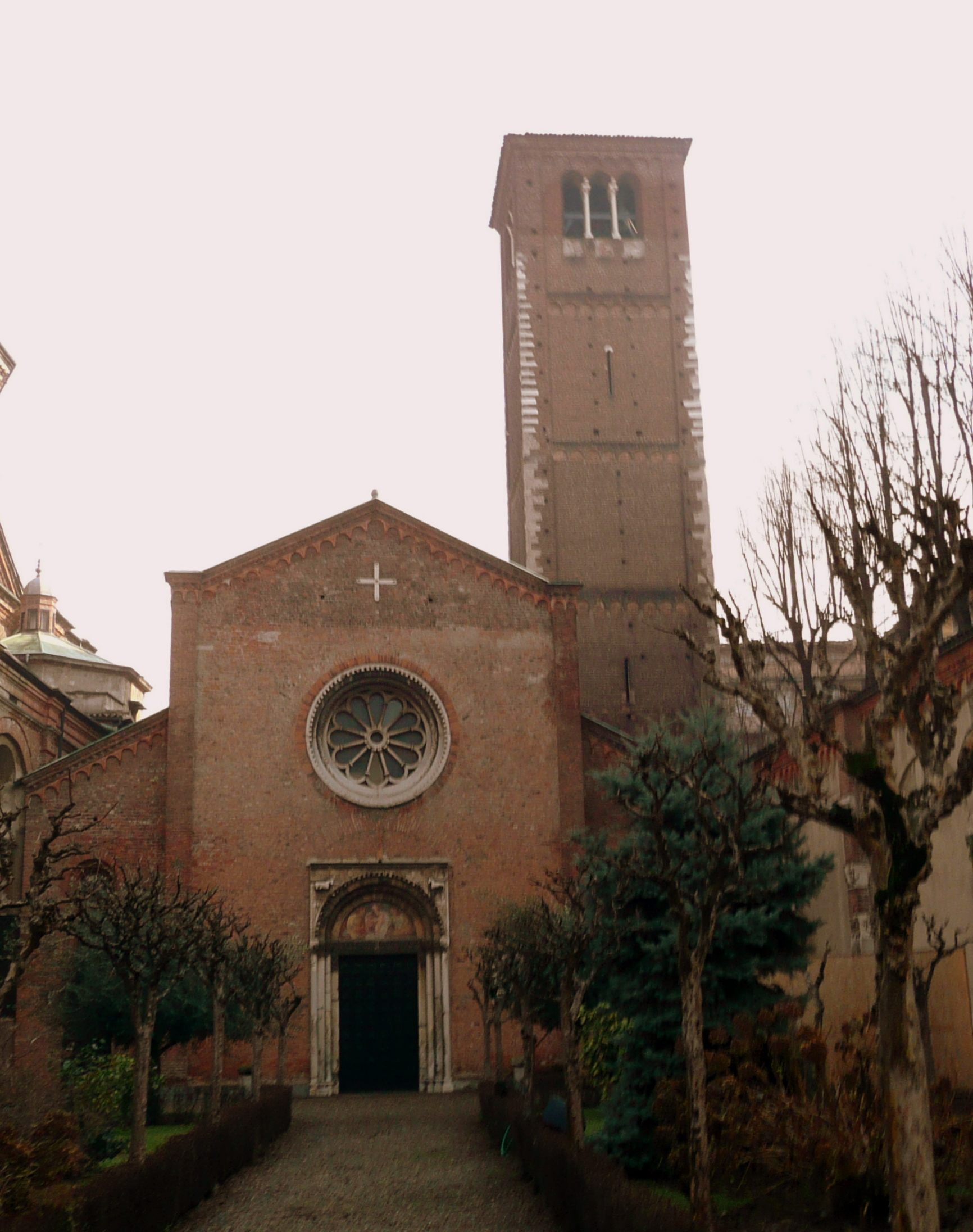 The Neo-Romanesque facade of San Celso church in Milan.